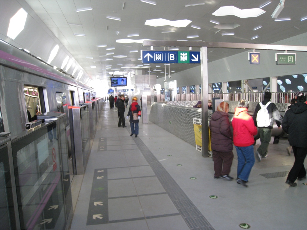 The platform of Zhuxinzhuang station. 中文（中国大陆）: 朱辛庄站的站台